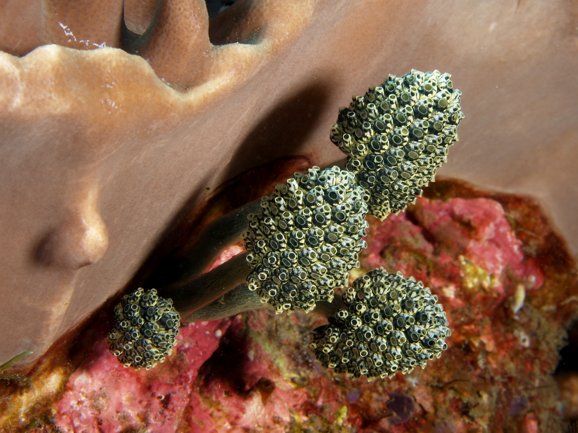 Oxycorynia fascicularis (Syn. category:Nephtheis fascicularis) (Tunicates)